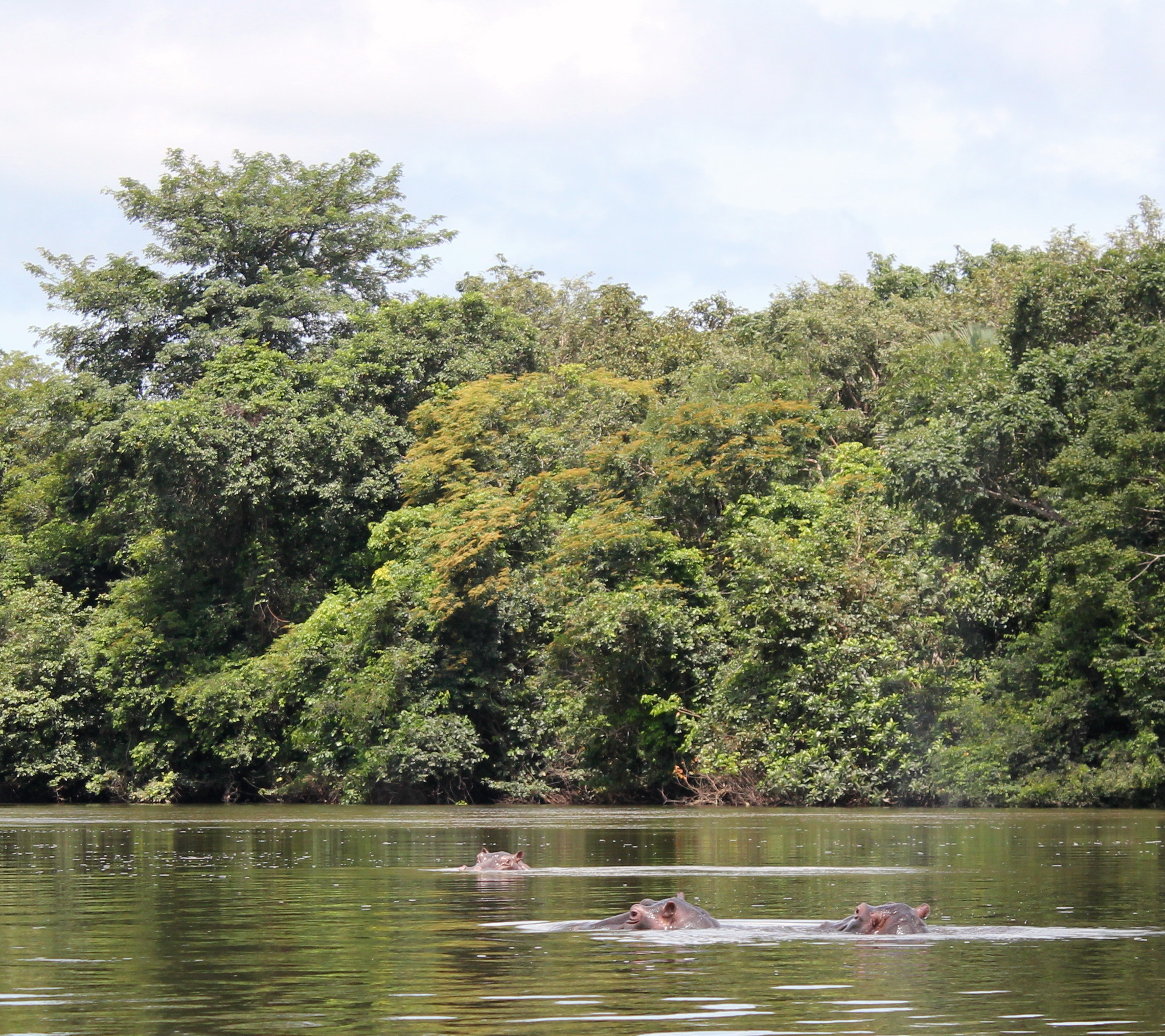 Pygmy hippos swim past in Outamba-Kilimi National Park